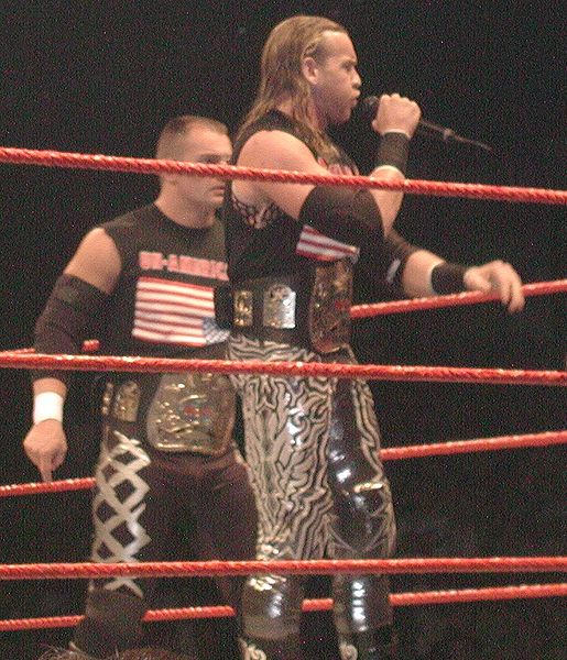 The Un-Americans: Lance Storm and Christian as WWE Tag Team Champions September 1 en:2002 Allstate Arena Rosemont, Illinois.